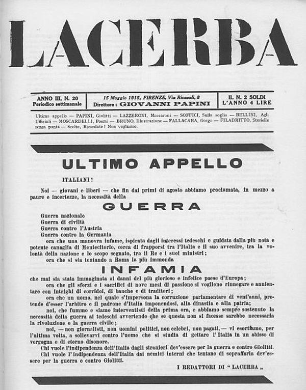 Copertina de Lacerba del 15 maggio 1915